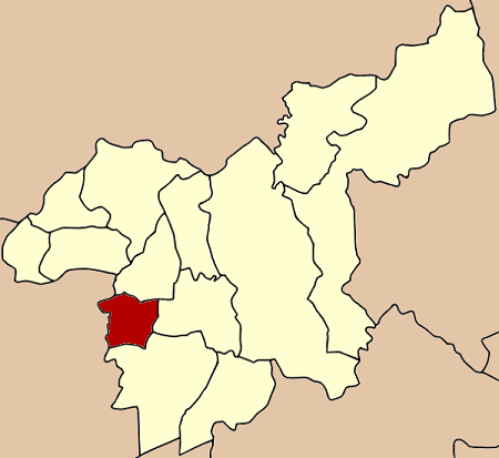 Map of Saraburi province, Thailand, highlighting Amphoe Nong Saeng.